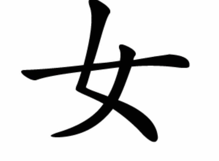 It is a picture of a Chinese characters, 女, meaning woman.